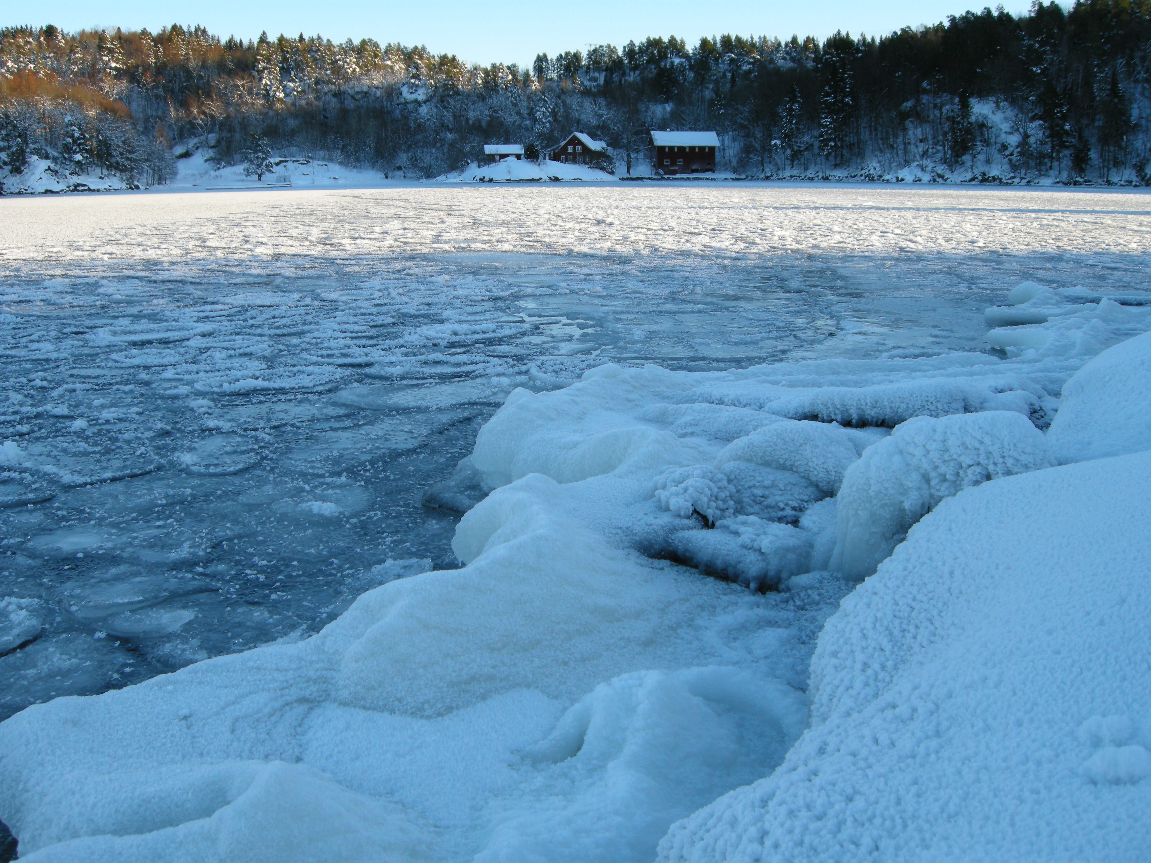 Farris lake, Larvik, Norway